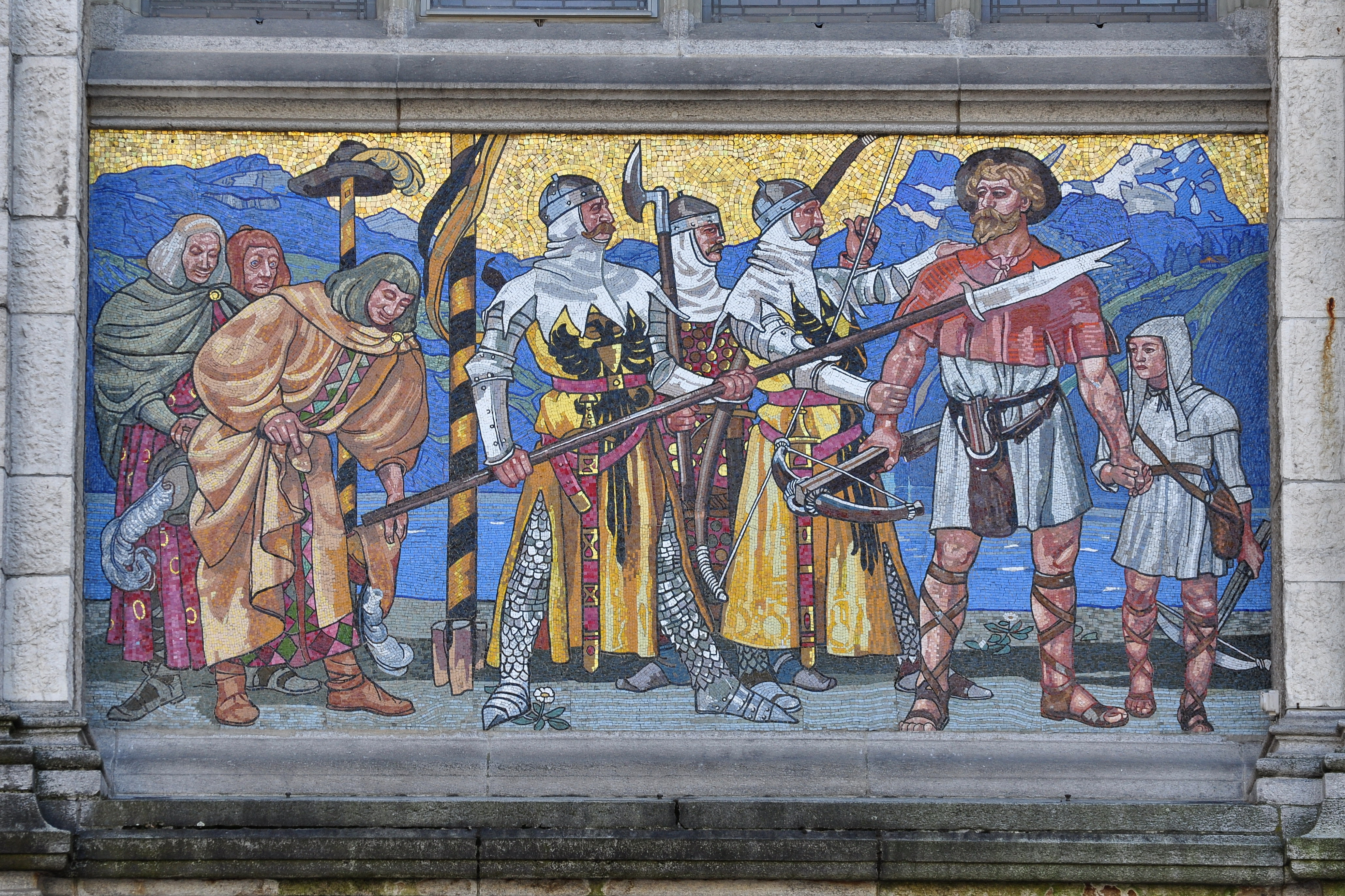 Landesmuseum in Zürich (Switzerland Mosaic of William Tell being arrested by three men-at-arms for not saluting Gessler's hat in Altdorf. One of the fourteen mosaics on the facade of the armoury of the Swiss National Museum, 244.5 x 474 cm (inv. no. LM 59002). Sandreuter won a competition for the design of the fourteen mosaics in 1897 but left them unfinished upon his death in 1901. Literature: Lucas Heinrich Wüthrich, Wandgemälde: von Müstair bis Hodler : Katalog der Sammlung des Schweizerischen Landesmuseums Zürich, Berichthaus, 1980, p. 183-185.